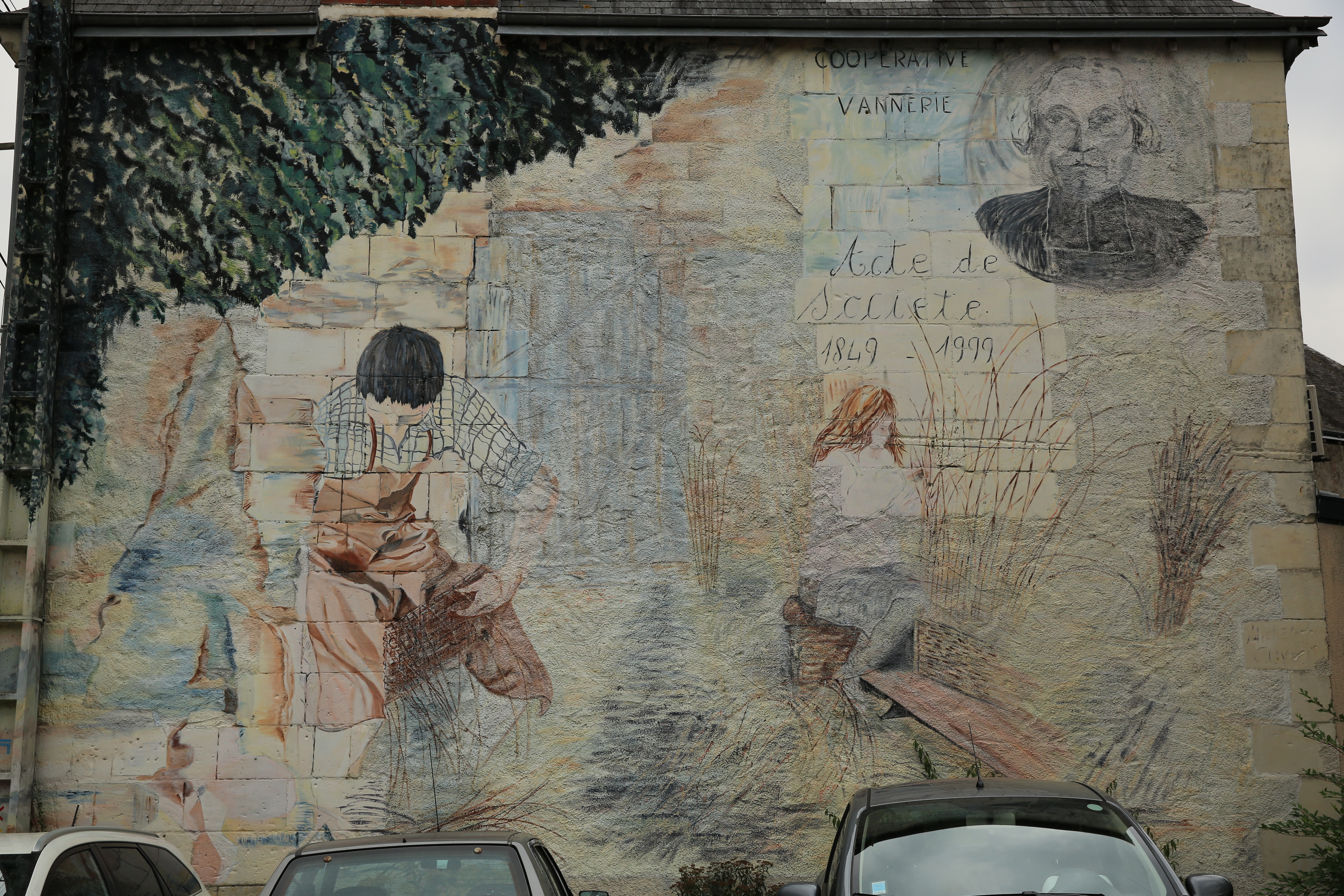 Mural for basketry and its history in Villaines-les-Rochers